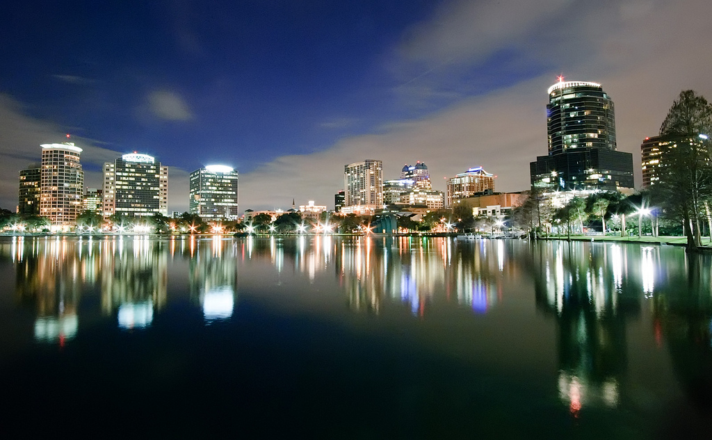 Orlando Skyline at night